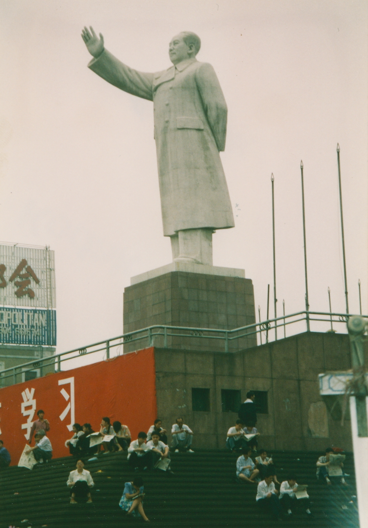 Chengdu, statue of Mao Zedong